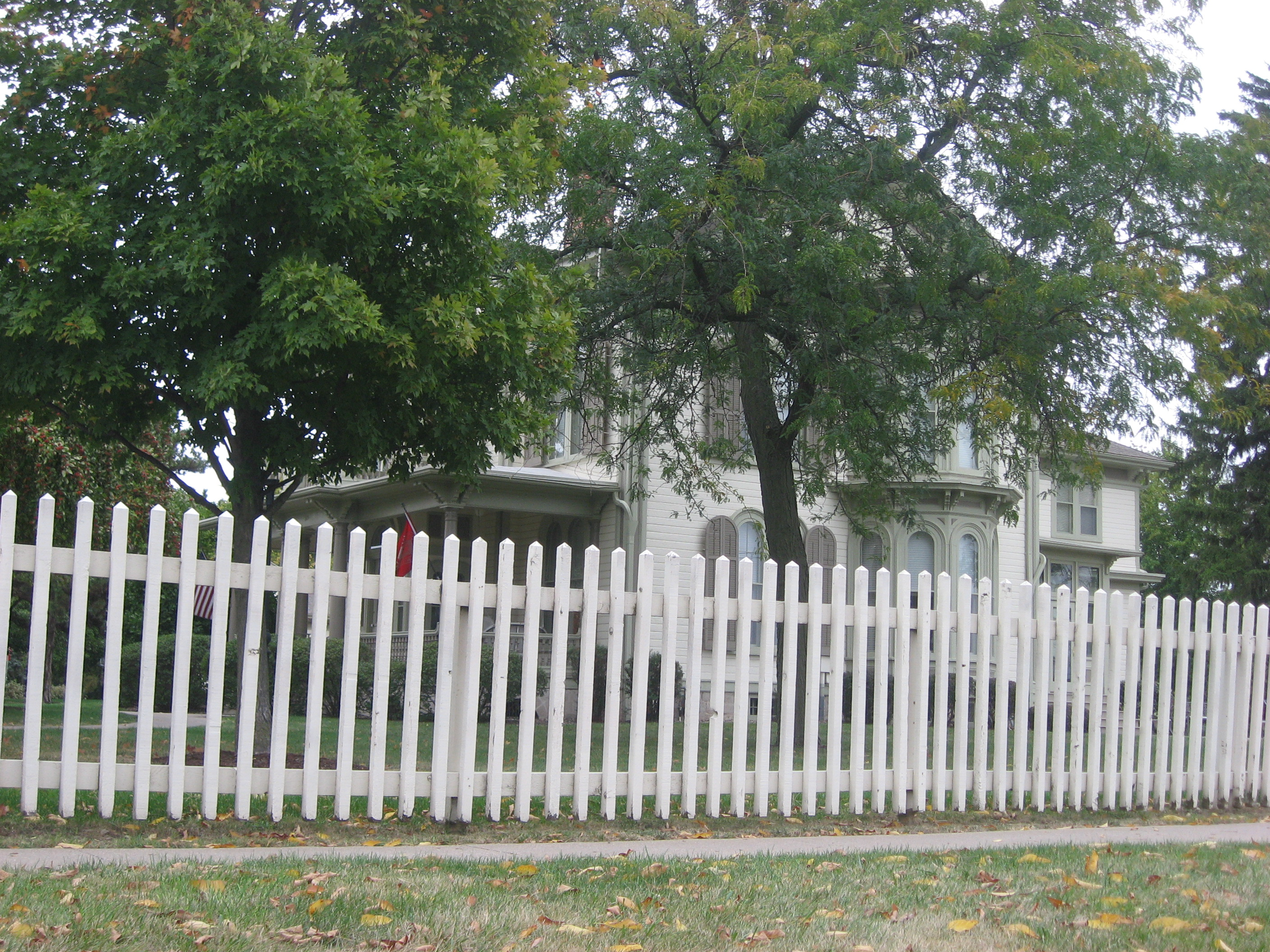 Side and front of the Ivory Quinby House, located at 605 N. Sixth Street in Monmouth, Illinois, United States. Built in 1867, it is listed on the National Register of Historic Places.